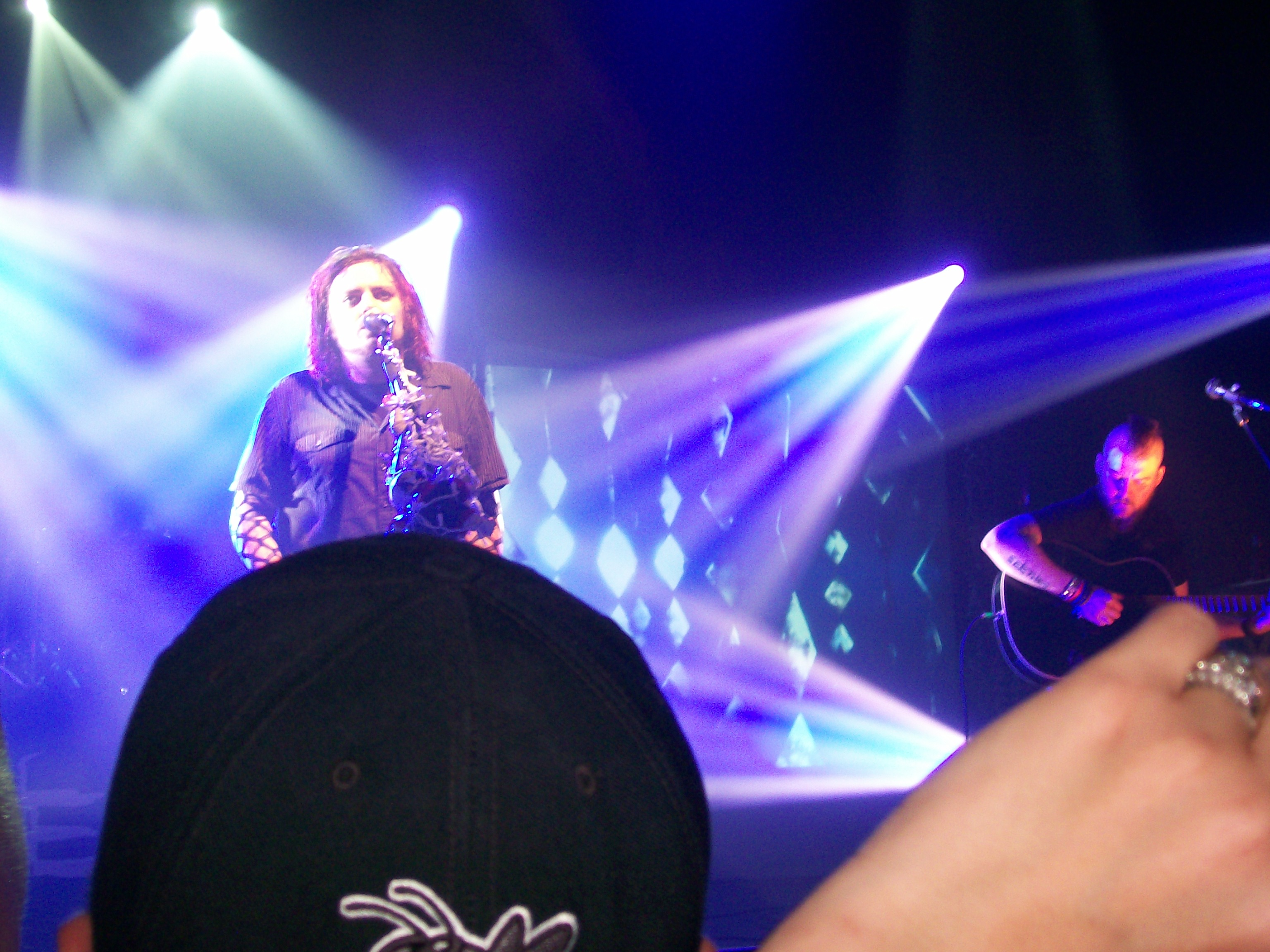 Shaun Morgan singing "Broken" at the Vic in Chicago on May 20th, 2008.